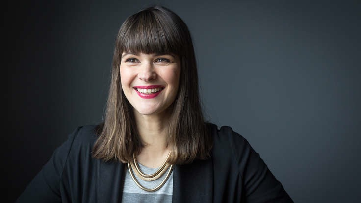 Jennifer Gardy is a Senior Scientist at the British Columbia Centre for Disease Control. She is an occasional host of CBC's The Nature of Things